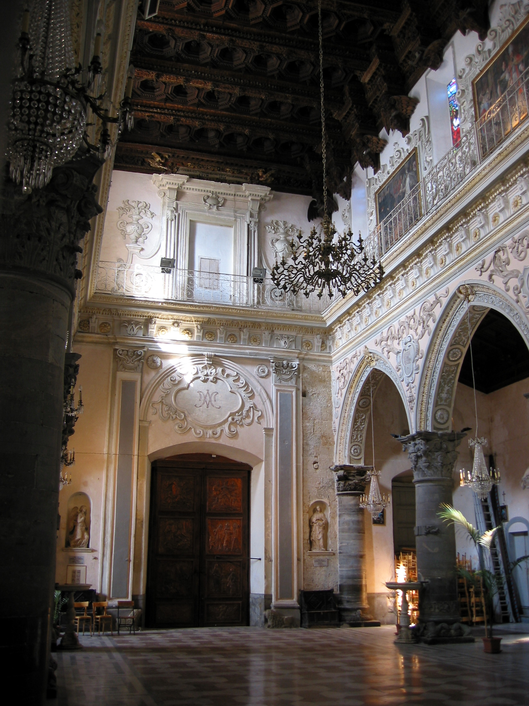 Duomo, Enna, Sicily, Italy